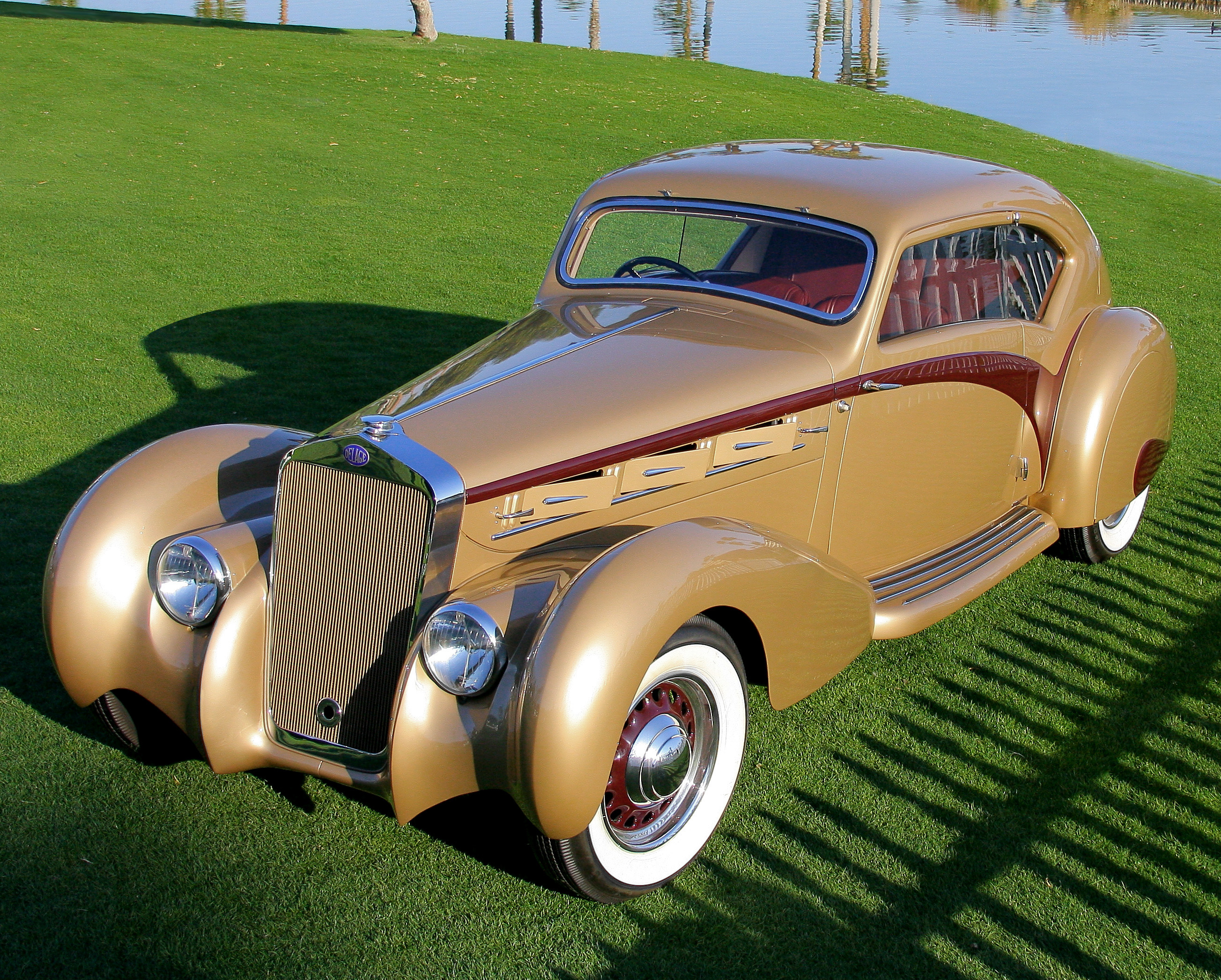 1937 Delage D-8 Coupe Aerosport by Letourneur et Marchand Desert Classic Concours d'Elegance 23 February 2014.